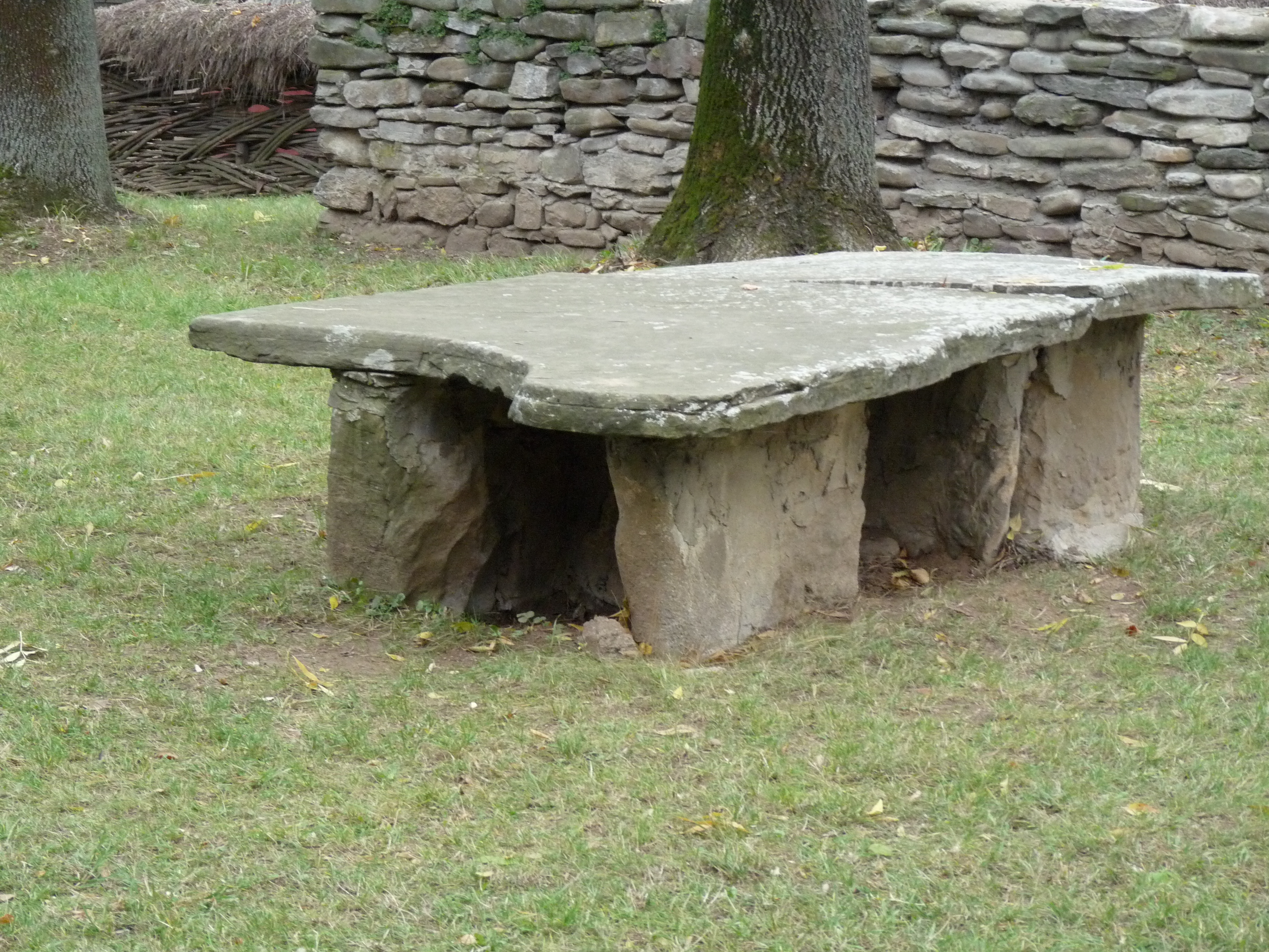 1773 church from Răpciuni, Neamţ County, Romania, exhibited in the Village Museum in Bucharest. Stone table.